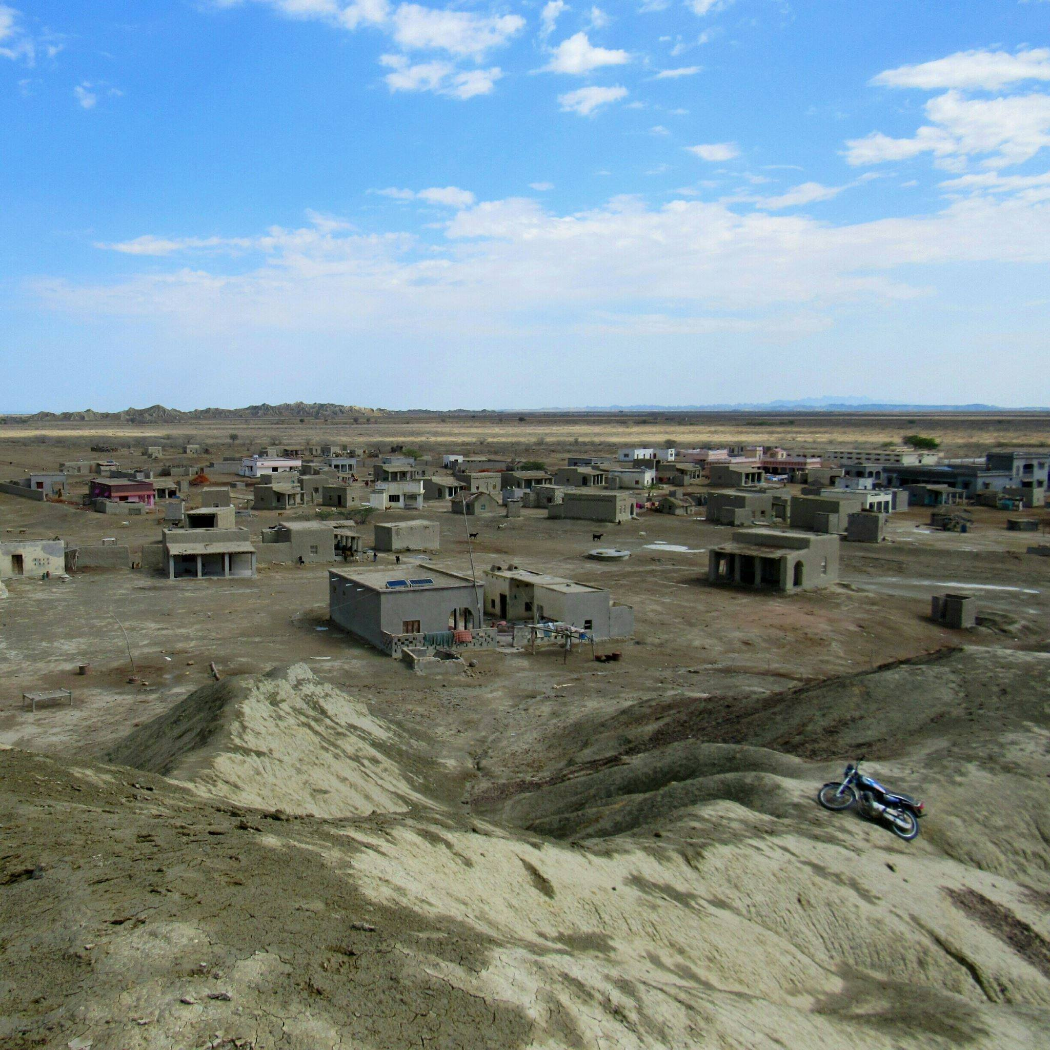 overview of kuldan